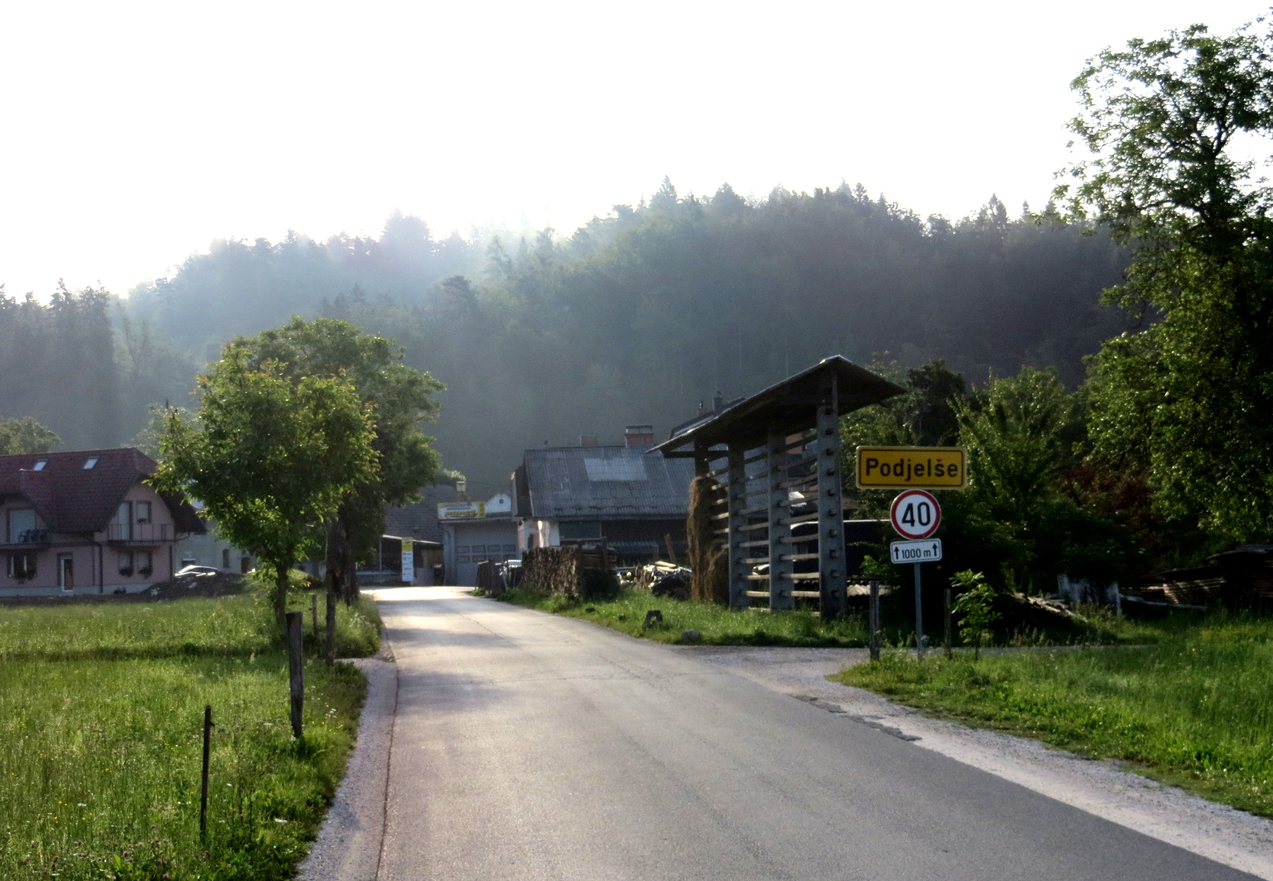 Podjelše, Municipality of Kamnik, Slovenia